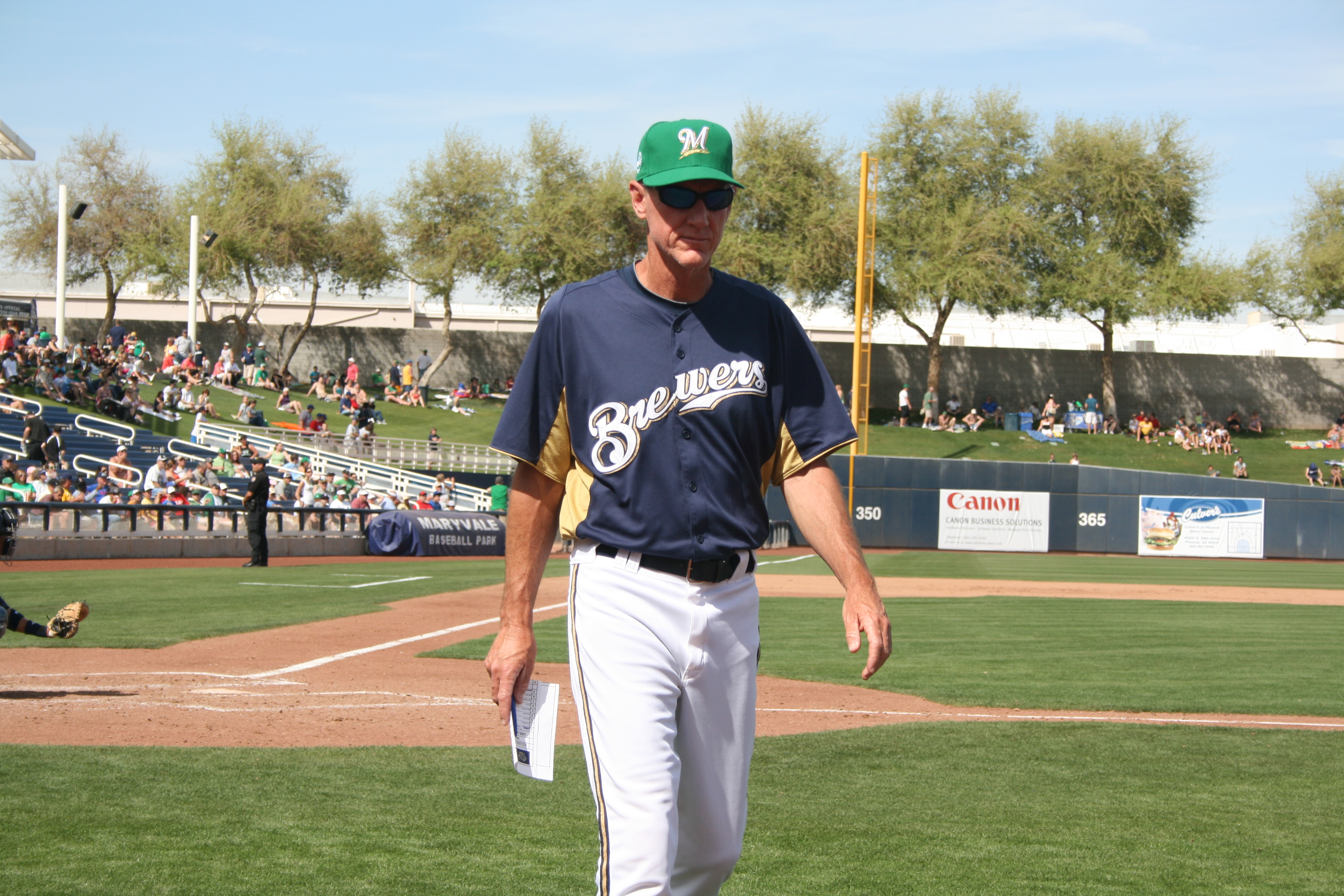 Brewers Manager Ron Roenicke walking back to his seat during spring training.